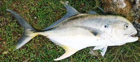 Caranx caninus taken off Mexico